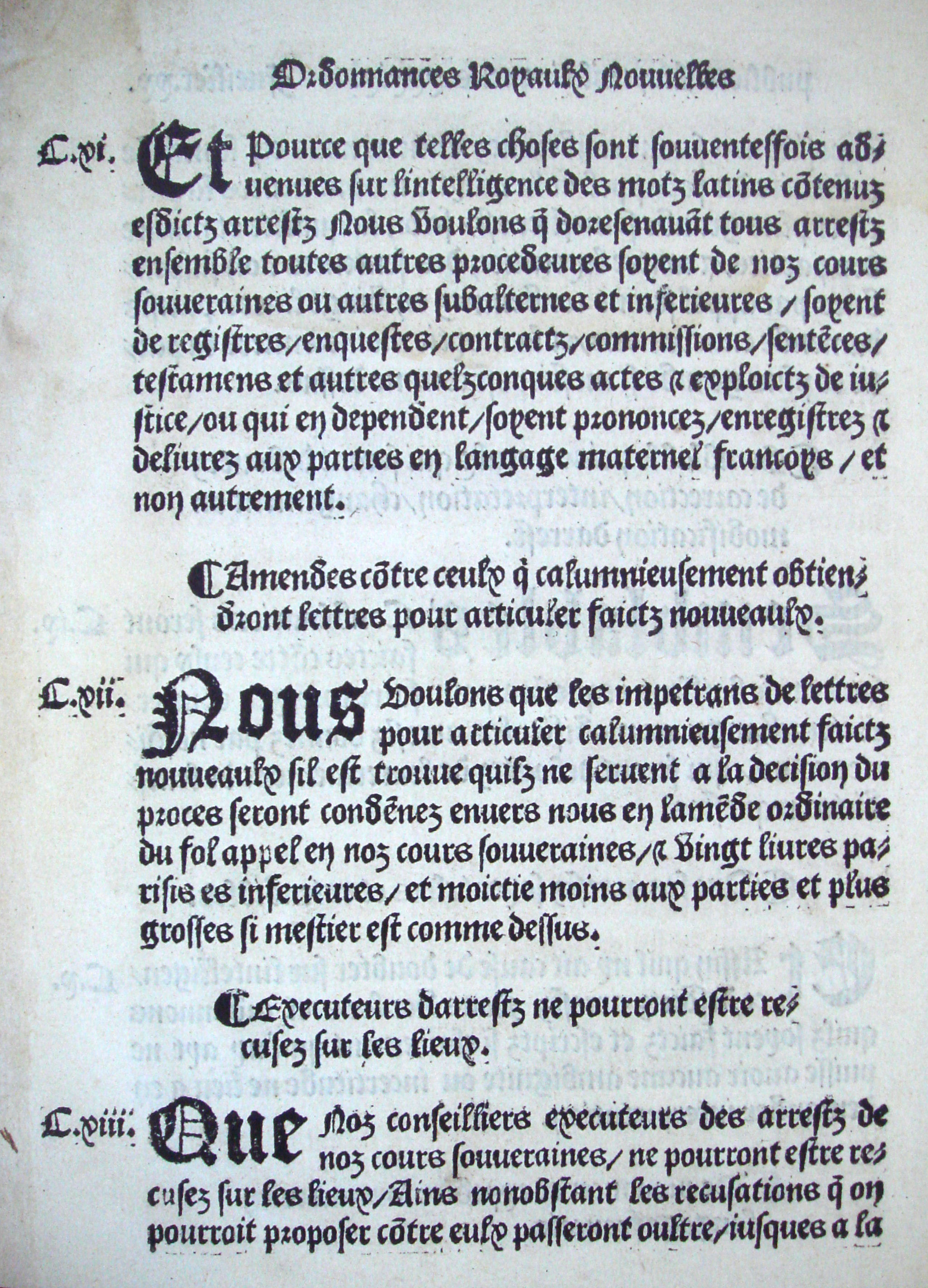 Ordonnance_de_Villers_Cotterets_August_1539